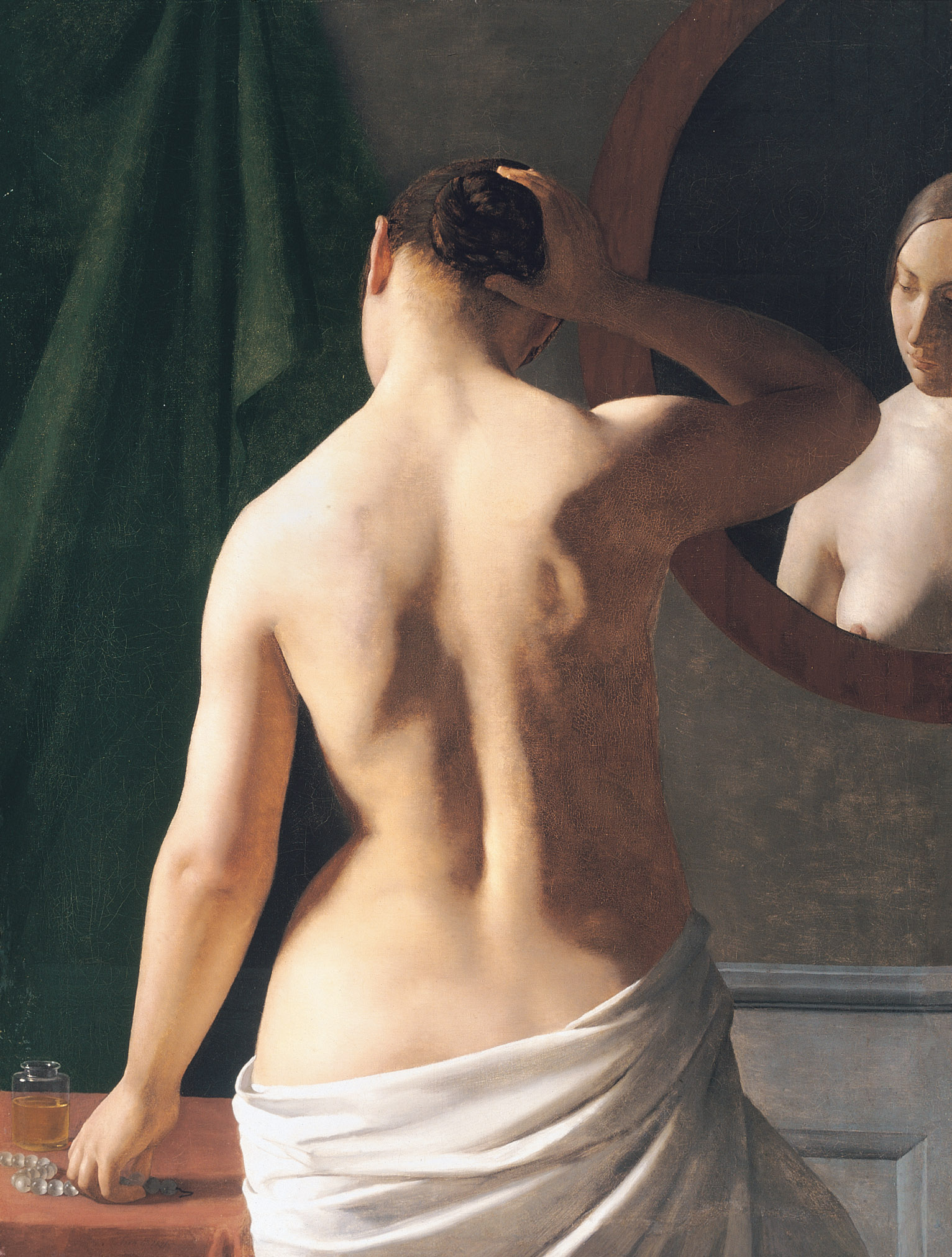 In 1839, Professor C.W. Eckersberg from the Danish Royal Academy of Arts, insituted a series of summer lectures for a small group of pupils. This is from the 1841 sessions, with the model Florentine. She first posed in July, and then in August, taking a different position, as shown in this painting. The students attending were L.A. Smith, Sally Henriques, his brother Nathan, Carl Dahl and H. J. Hammer - and Eckersberg also did a painting of Florentine.